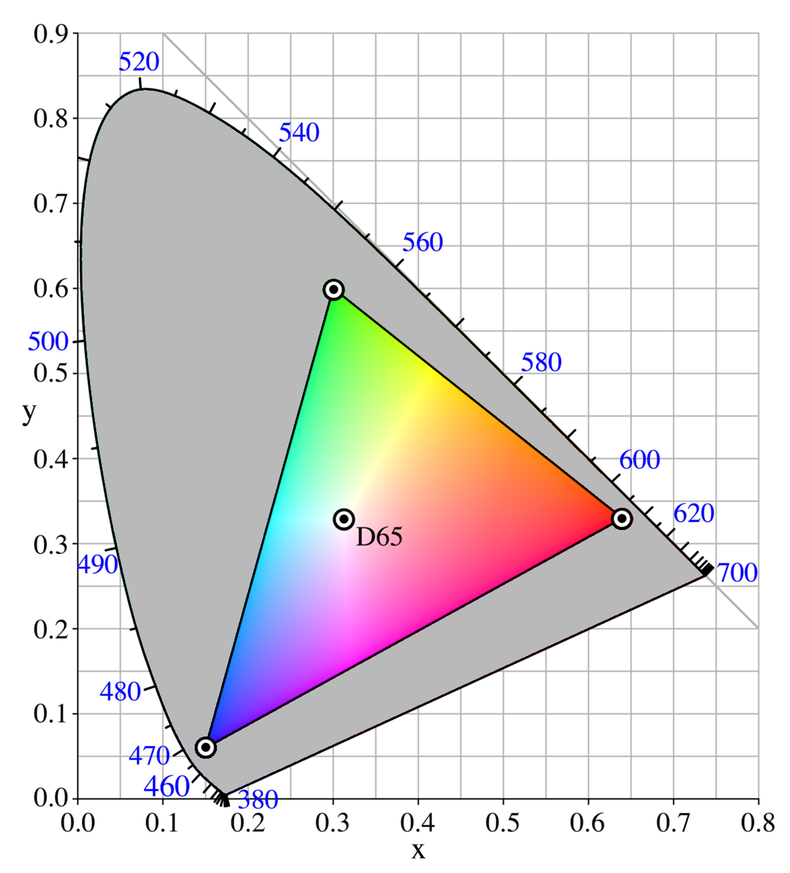 Modified from Image:CIExy1931 sRGB.png, from commons with GFDL.